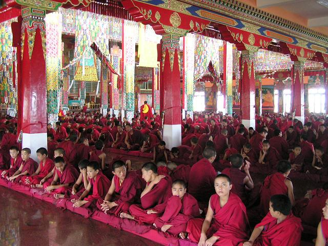 The Sera Mey monks in the main temple for puja ceremony.